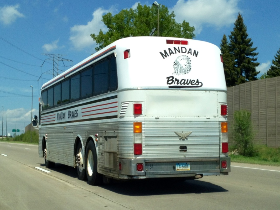 Bus belonging to the Mandan Braves of Mandan High School of Mandan, North Dakota. Taken on the freeways of the Twin Cities.